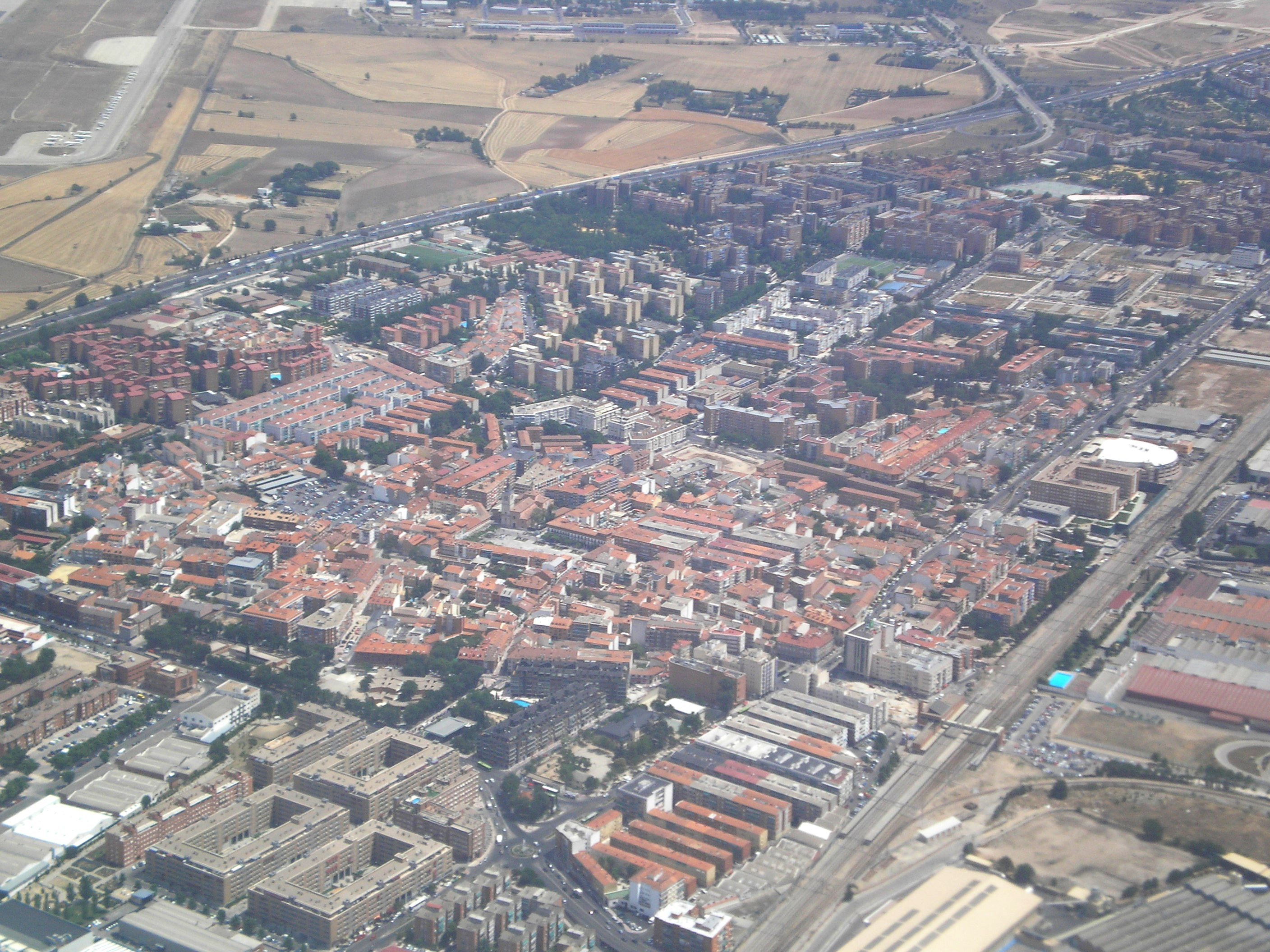 Torrejón de Ardoz (Madrid, Spain) from the air.